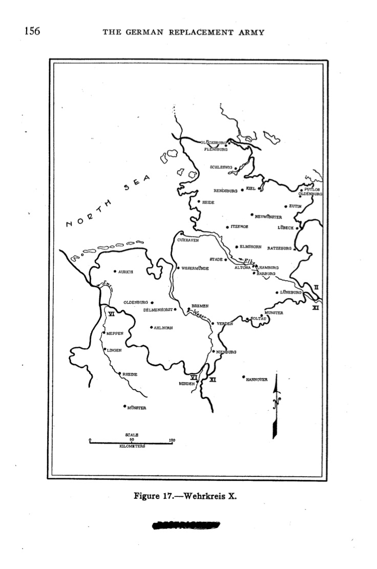 Map of the Wehrkreis, Military District, X.